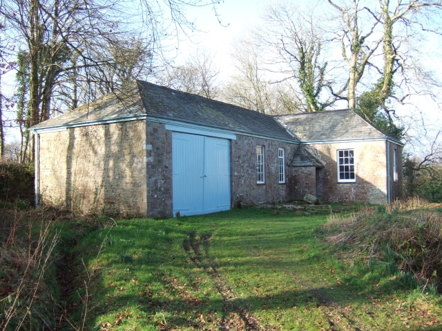 Dunsland: Coach house The National Trust have reglazed the windows, weatherproofed the roof and repainted since the earlier photographs were taken. Here it is basking in the february sunshine.